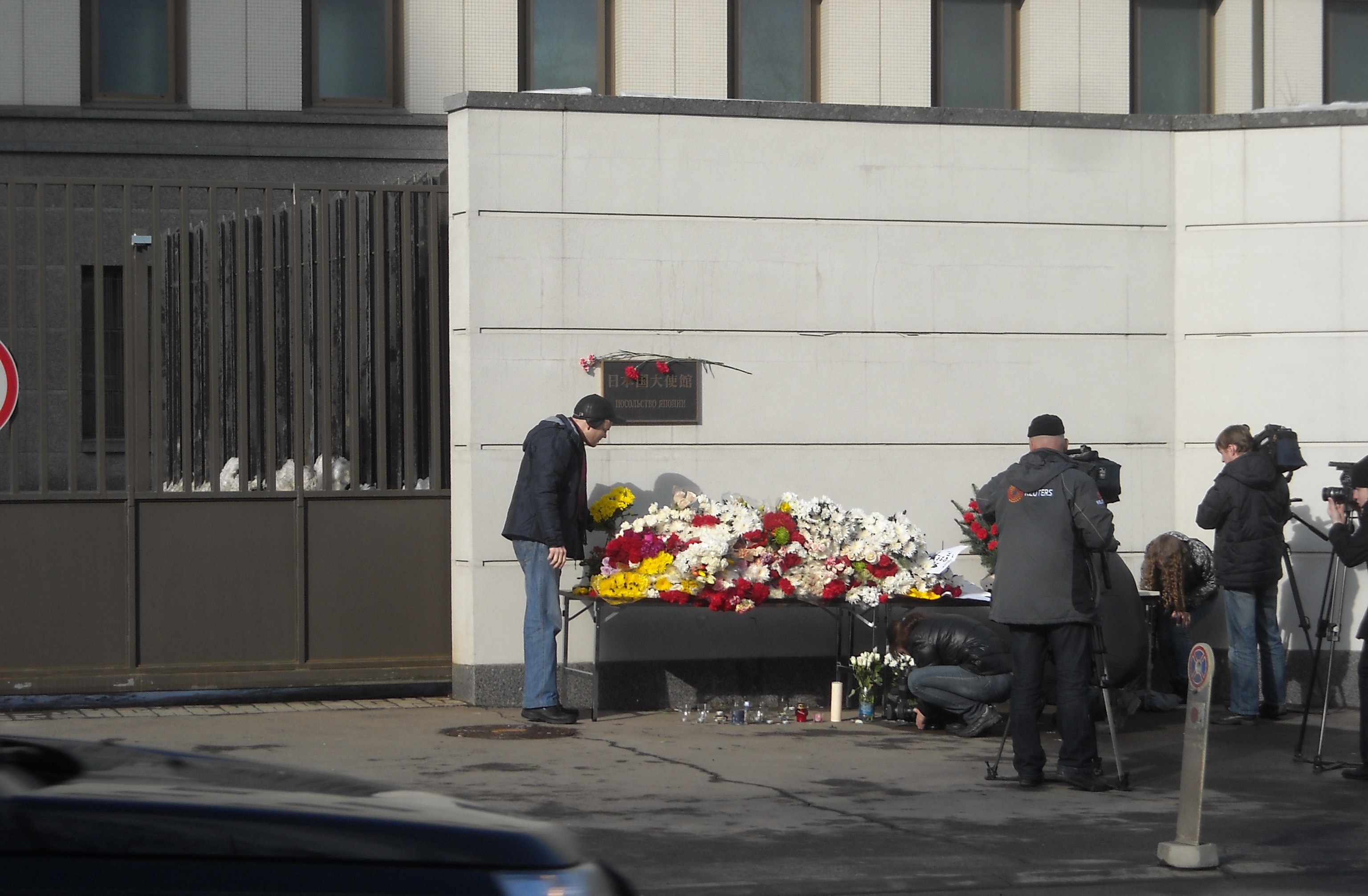 Russian people take flowers to the embassy of Japan in Moscow after the 2011 earthquake